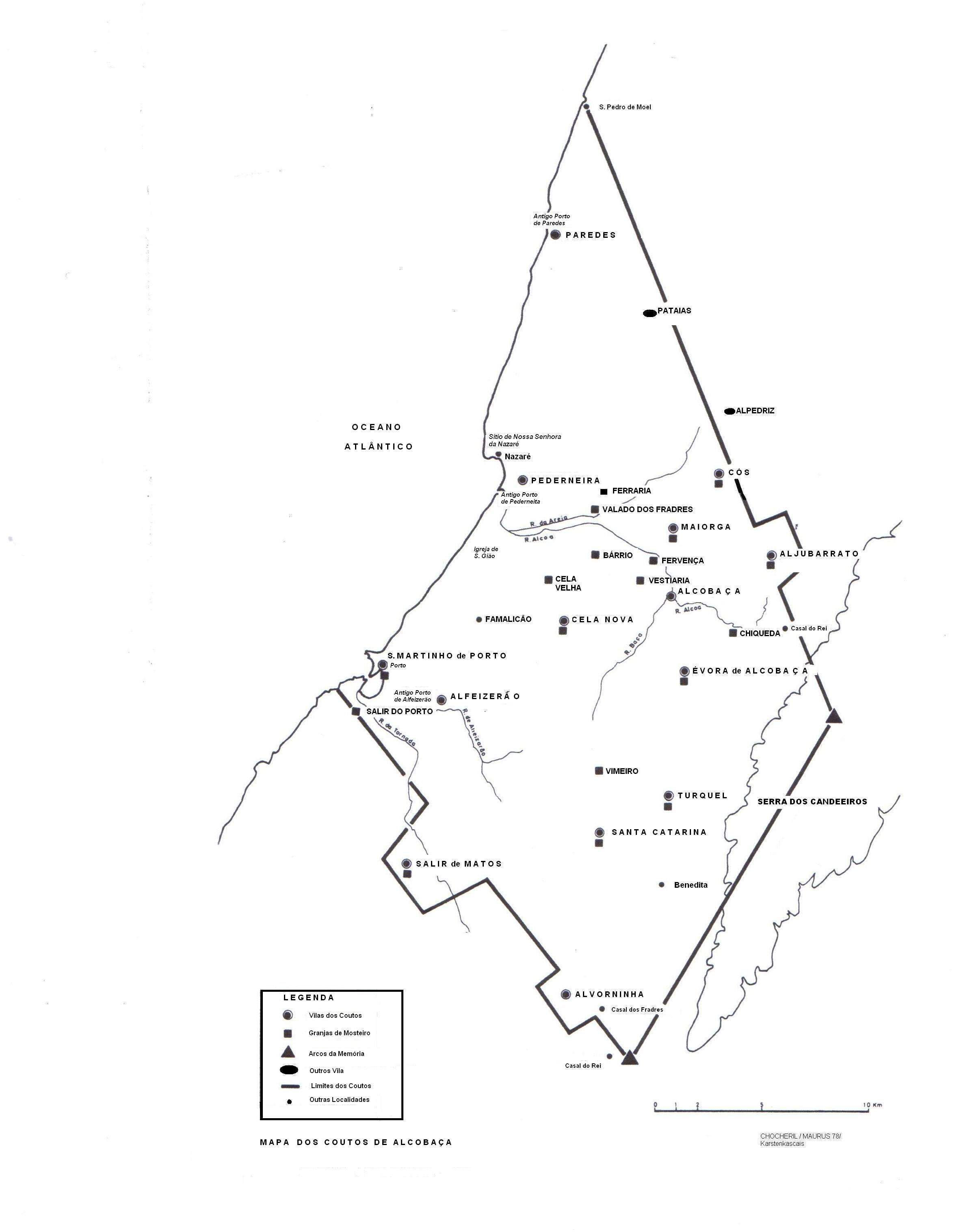 Alcobaça, Portugal, Mosteiro do Alcobaça, Abbey, plan of the Coutos of Alcobaça, County of the Abbey of Alcobaça, plan new created by Karstenkascais, on the base of Dom Maur Chocheril, Alcobaça, Abadia Cisterciense de Portugal, 1989, Impresa Nacional-Casa da Moeda, Dep.Legal 30258/89; description in Portuguese